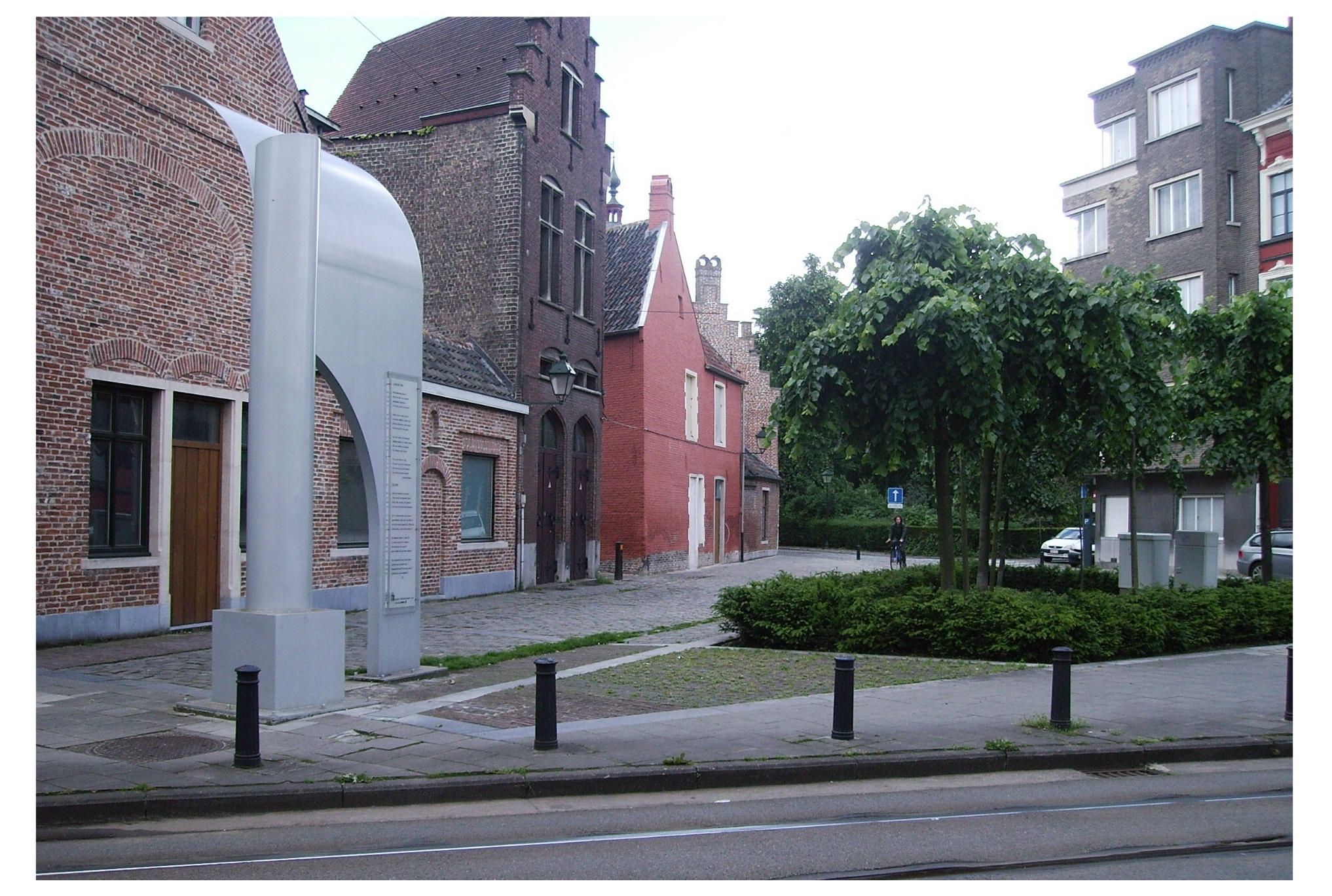 Entrance to Holy Corner Gent Belgium Column Redgy Vanhove Own Camera